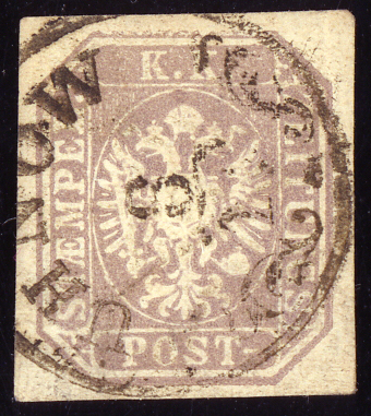 Austria KK Stamp for Newspaper, issue 1863, cancelled UHNOW, Galicia, now in Ukraine, Mueller typeRSb-f.